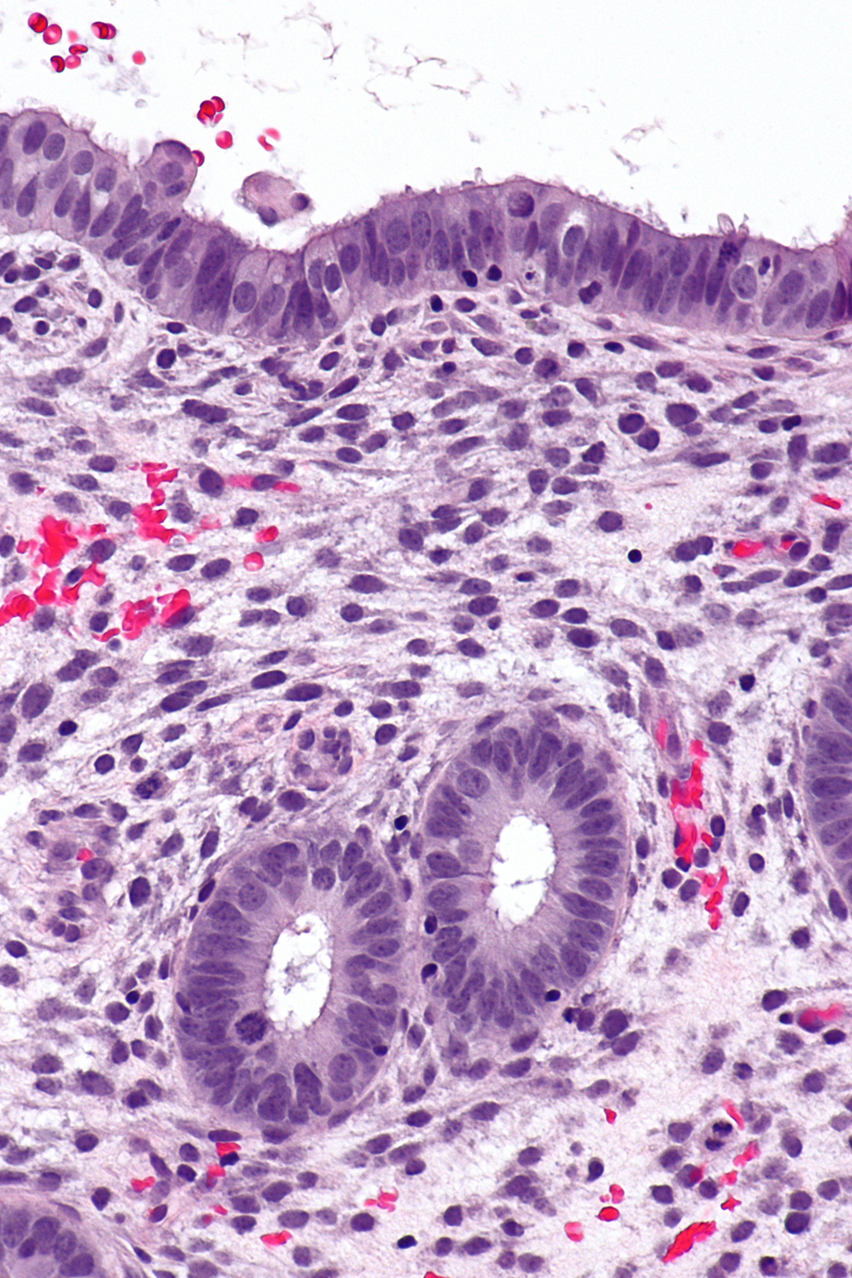 Micrograph of proliferative phase endometrium. H&E stain. Related images PPE - very low mag. PPE - low mag. PPE - intermed. mag. PPE - high mag.